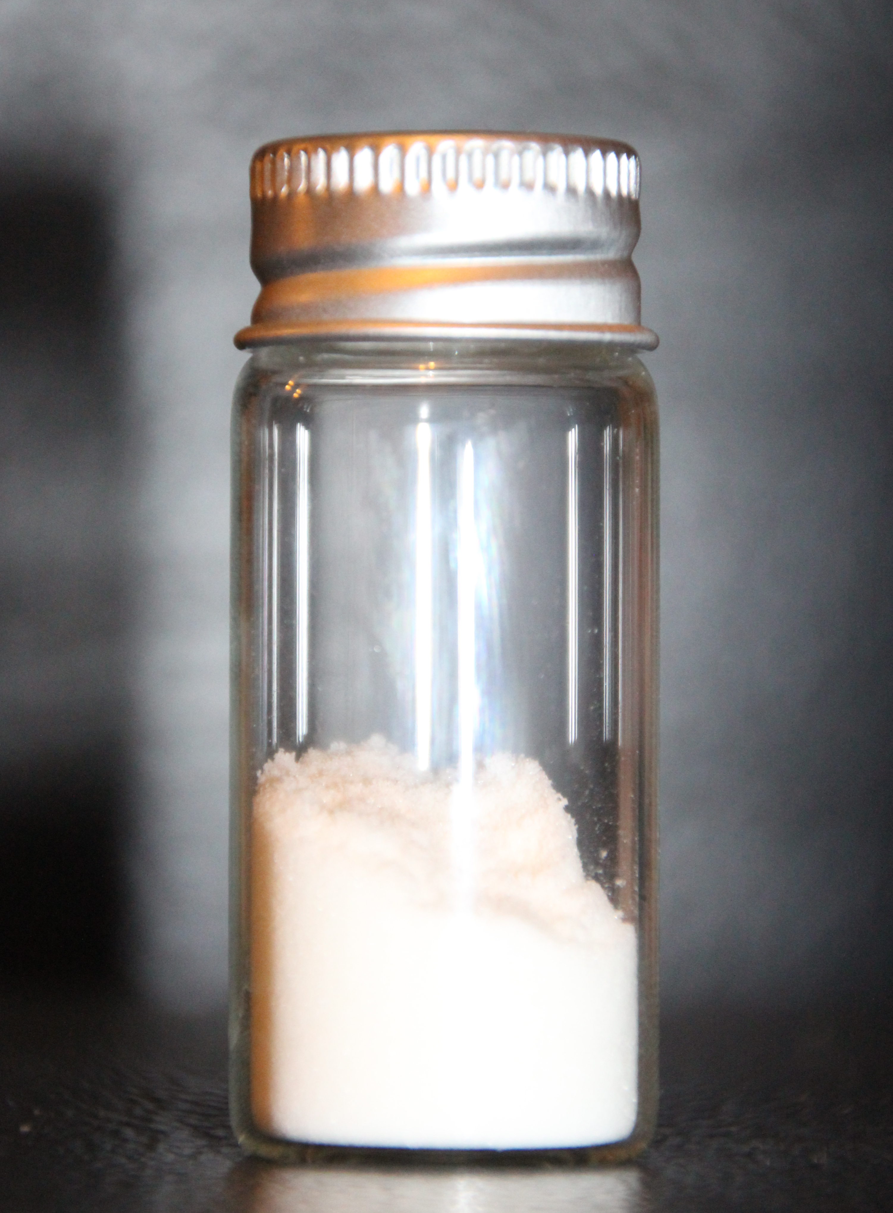 sample of polyvinyl pyrrolidone, in the form of white flakes